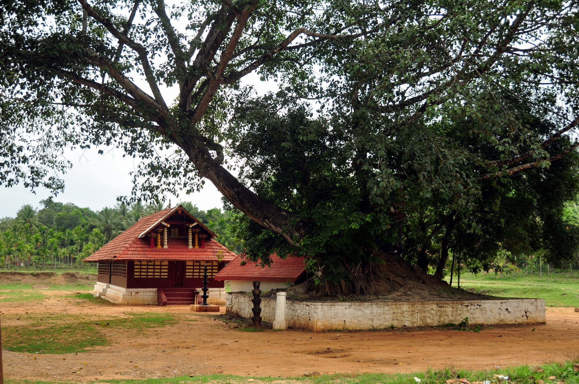 Valliyurkavu Temple of Tribals of Wayanadu Kerala